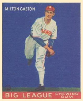 1933 Goudey baseball card of Milton "Milt" Gaston of the Chicago White Sox card number 65. PD-not-renewed.